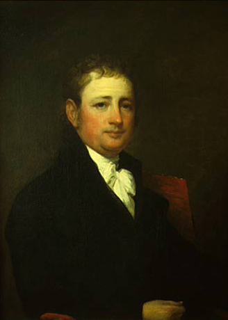 George Calvert of Maryland, painted by Gilbert Stuart, 1804